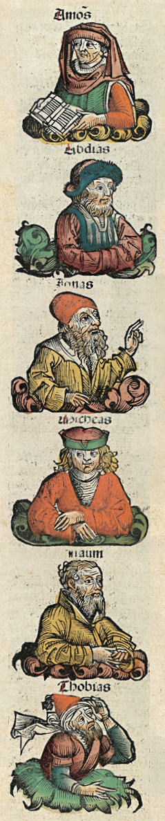 Woodcut from the Nuremberg Chronicle